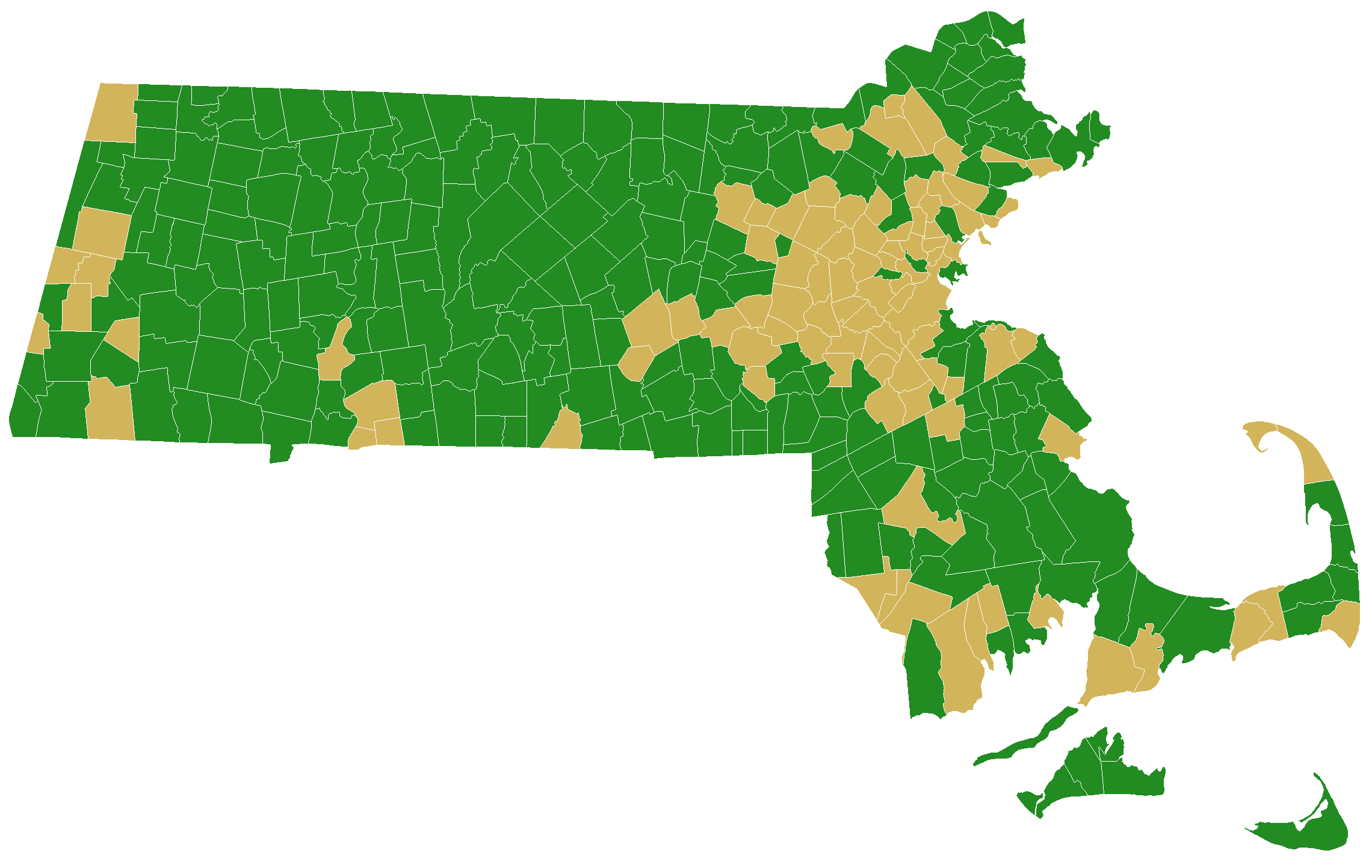 Election results of the 2016 Democratic Presidential Primary Legend Bernie Sanders Hillary Clinton Tie Vote yet counted